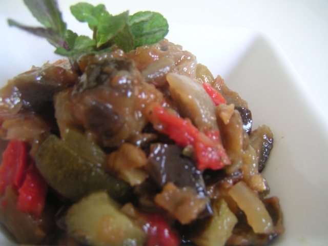 "Samfaina" is a Catalan dish or, more accurately, accompaniment, containing some typical Mediterranean vegetables as eggplant, courgette, onion, red pepper, Italian green pepper, chopped garlic, grated tomatoes, olive oil and sometimes a small quantity of typical Catalan herbs as chopped parsley, thyme or rosemary. Vegetables are lightly fried in olive oil.